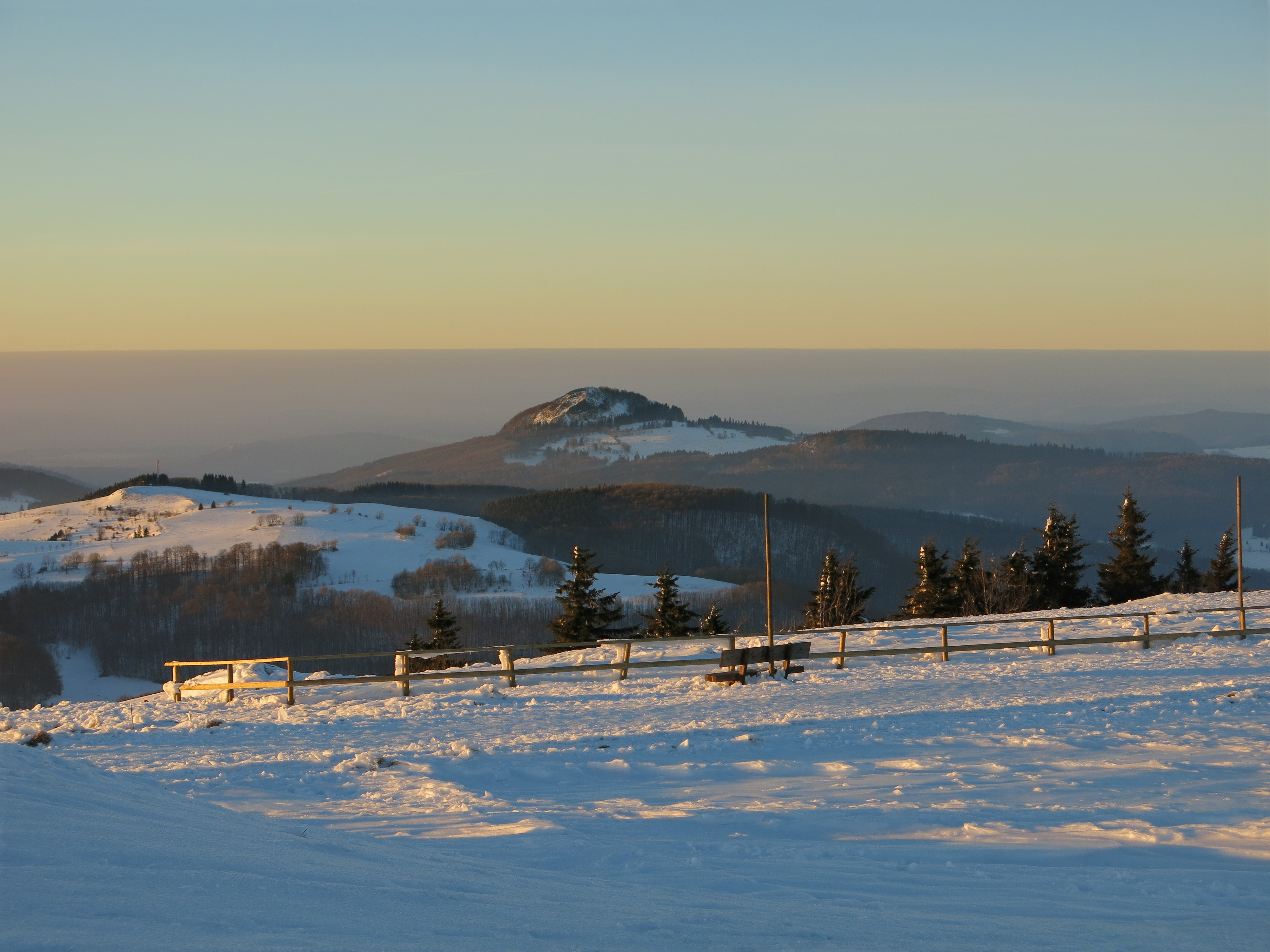 View from Wasserkuppe northward to Milseburg during meteorological inversion.